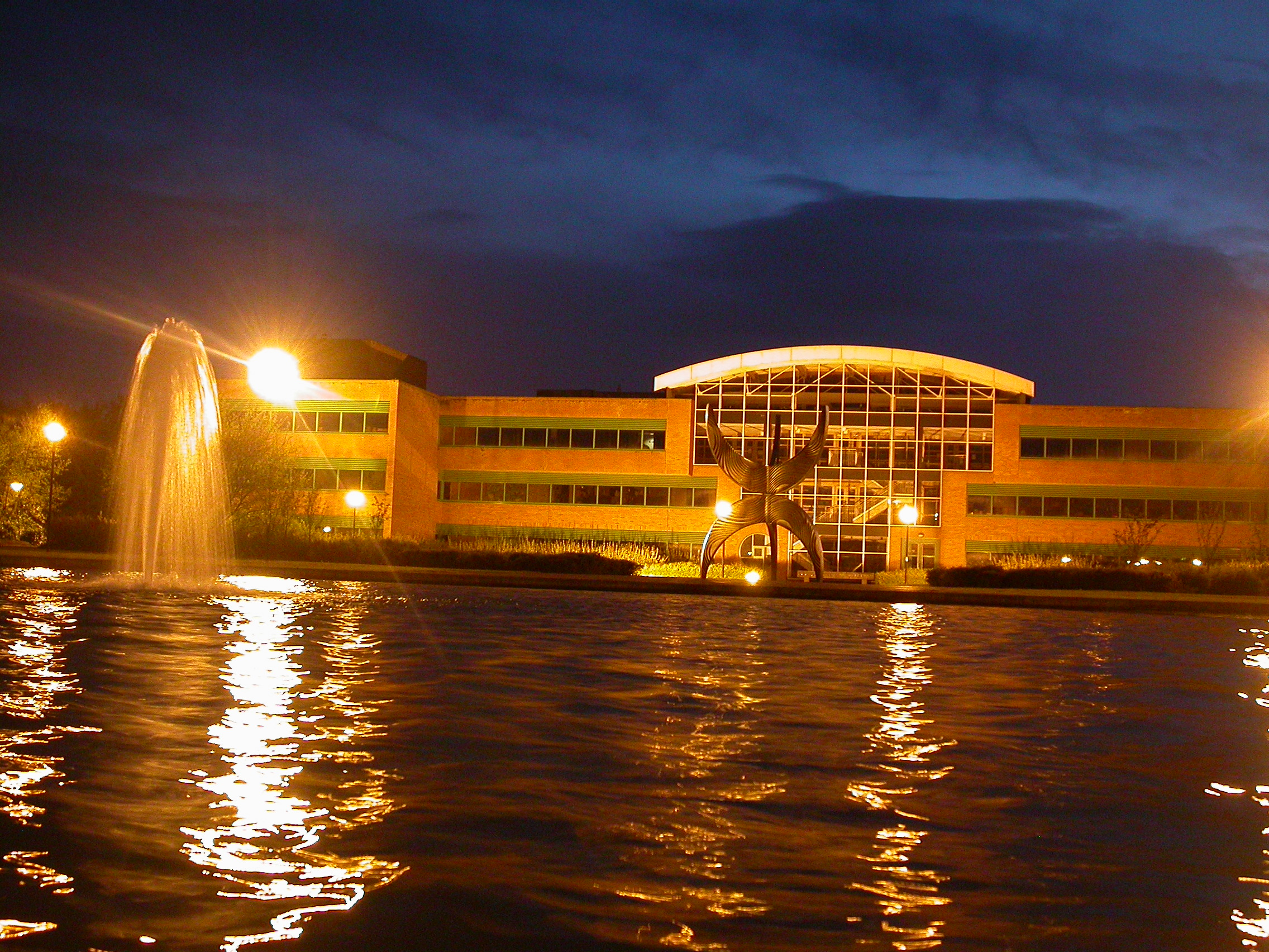 Foirgneamh Schumann, Ollscoil Luimni, 2003, togtha ag Sean an Scuab